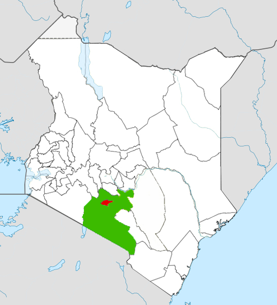 Nairobi County in Nairobi MetroKiswahili: Kaunti ya Nairobi kwenye Nairobi Metro